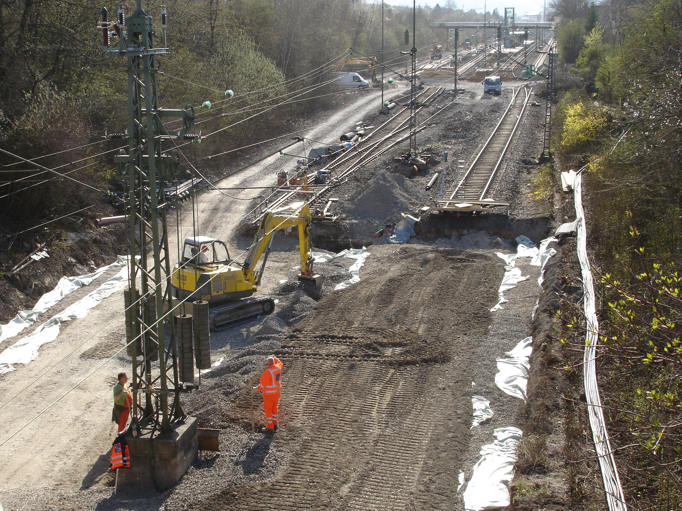 Track construction at the railway station Korntal in the spring 2010.